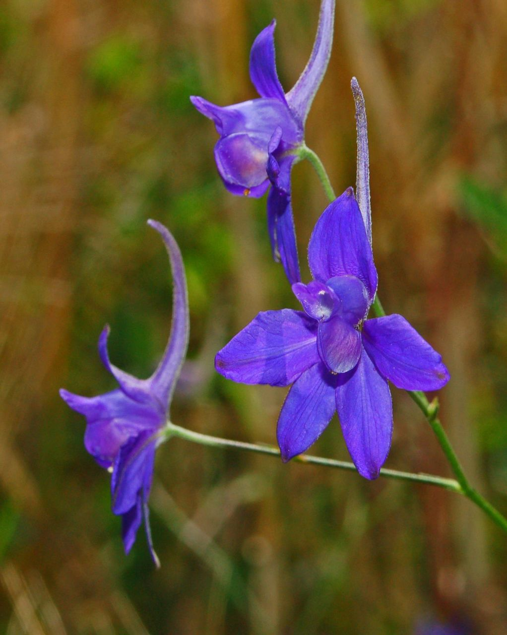 Consolida regalis - Cerreto Ratti, Alessandria, Italy